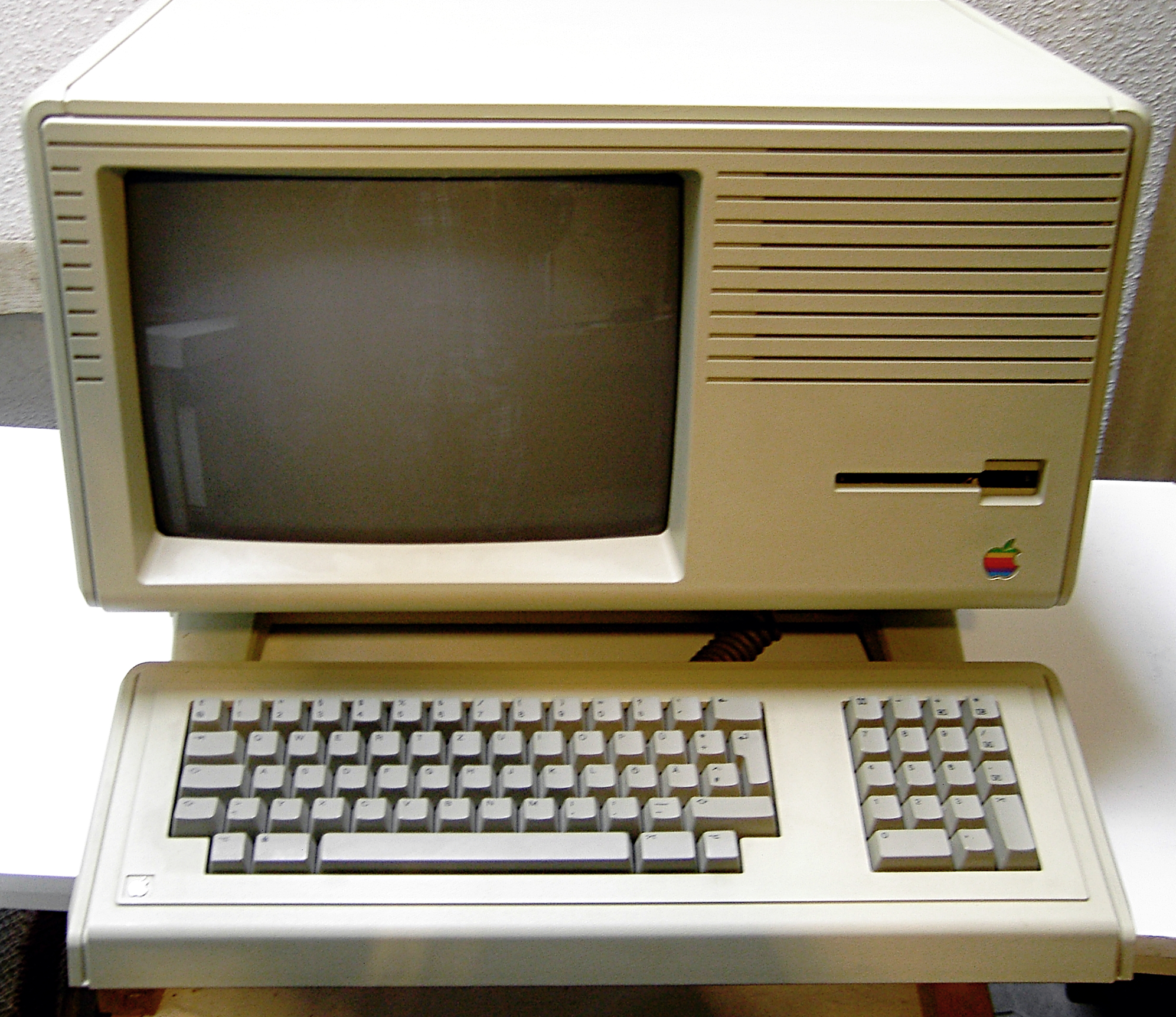 Macintosh XL-successor of the Apple Lisa 2.jpg